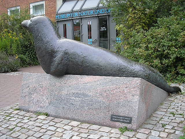 Christa Baumgärtel, seal, gift of the Possehl Foundation 1990 in front of the Lübeck Nature and Environmental Museum